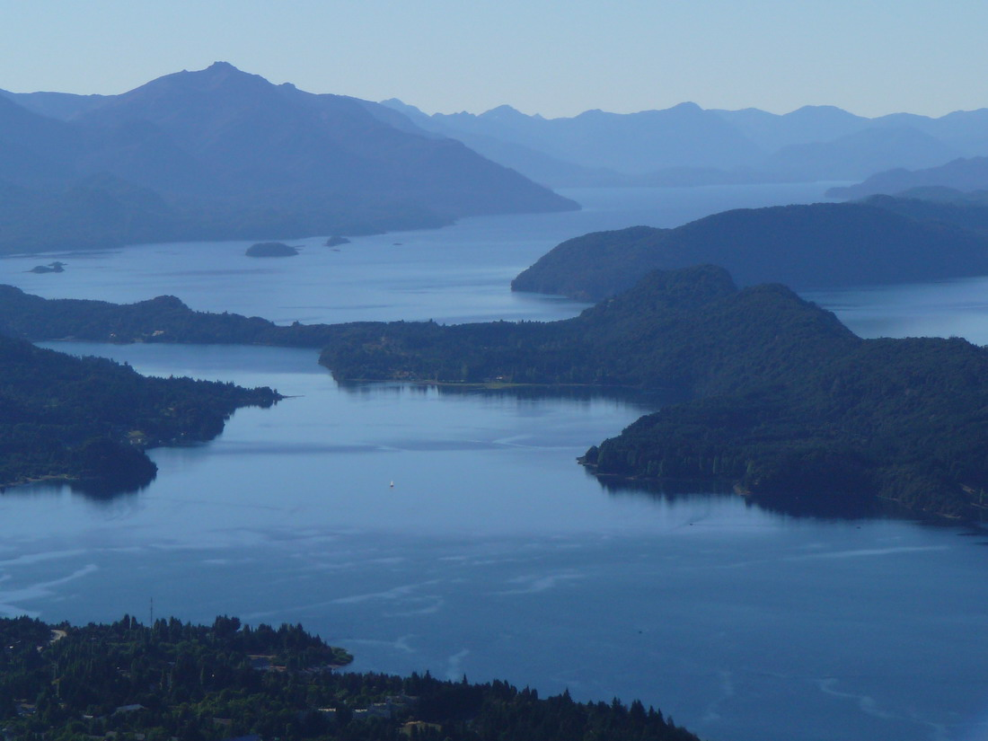 Bariloche, Patagonia (Argentina).